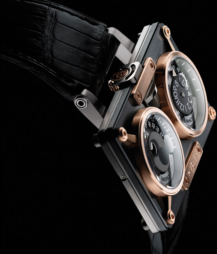 Horological Machine No.2 ceramic/red gold by MB&F